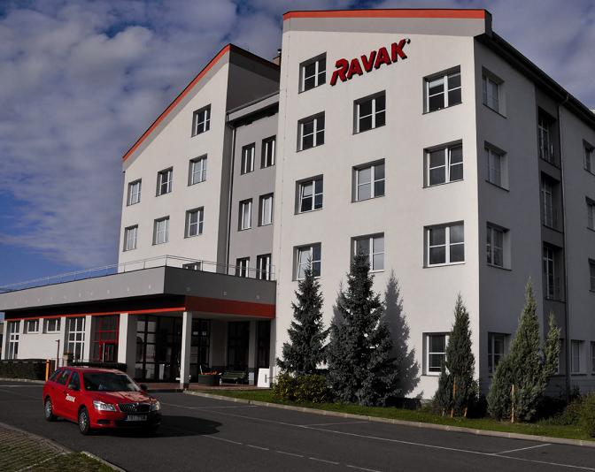 Ravak headquarters in Příbram